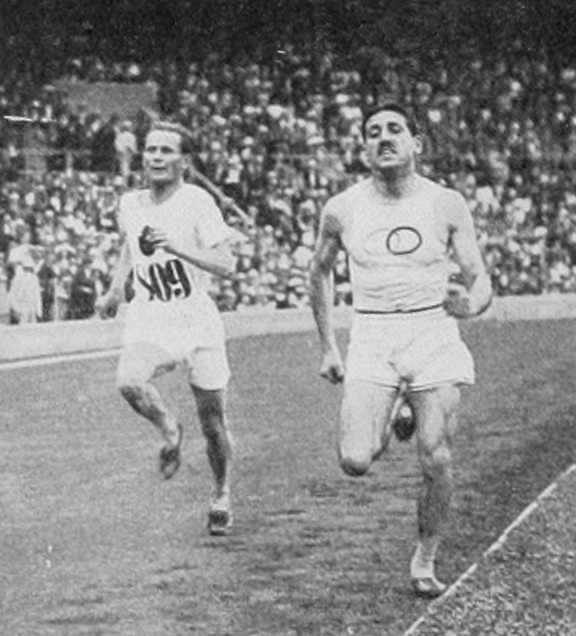 The finish the men's 5000 metre final at the 1912 Summer Olympics. The upcoming gold medalist Hannes Kolehmainen in second position with Jean Bouin still in the lead.